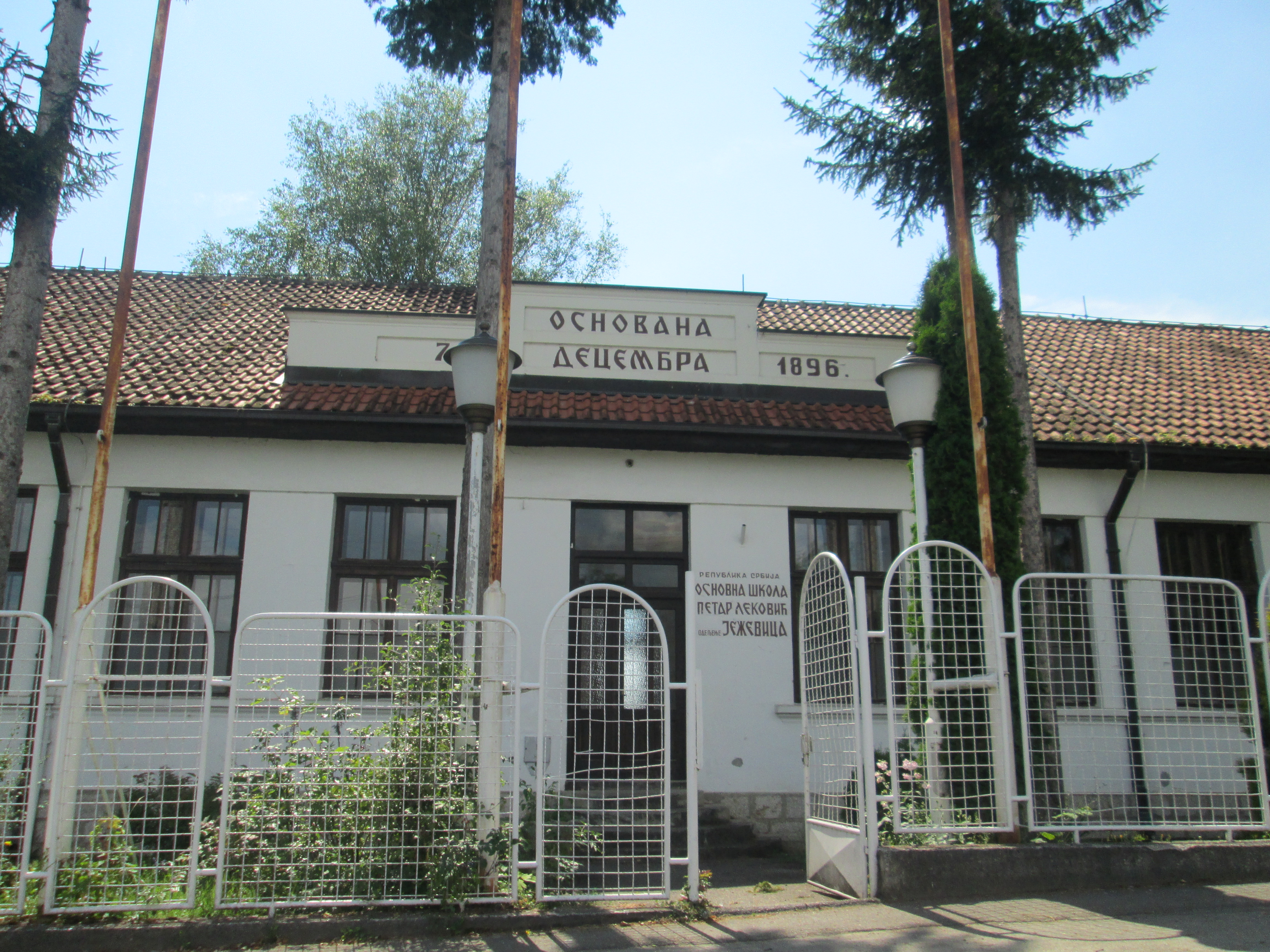 Primary school "Petar Leković", Velika Ježevica Српски (ћирилица): Основна школа „Петар Лековић“, Велика Јежевица